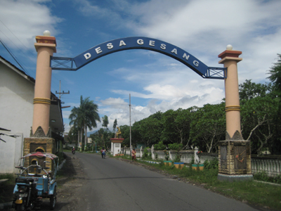 Archway entrance to Gesang Village, East Java, Indonesia